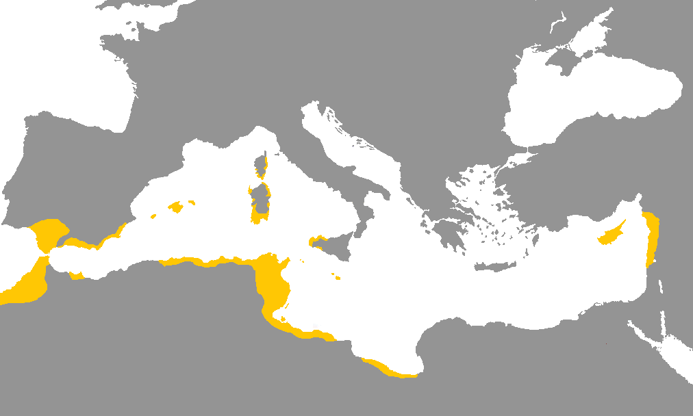 The distribution of the Phoenician language prior to the Roman conquest.